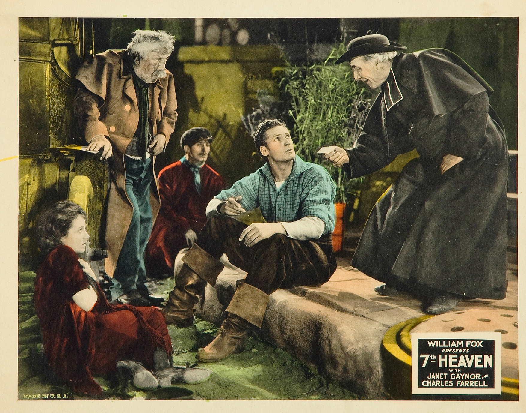 Lobby card for the American romantic drama film 7th Heaven (1927).